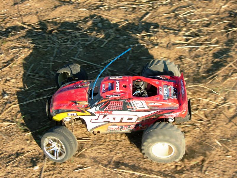 A nitro-powered RC car